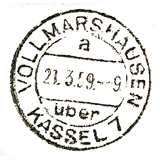 Postmark scanned and cleaned